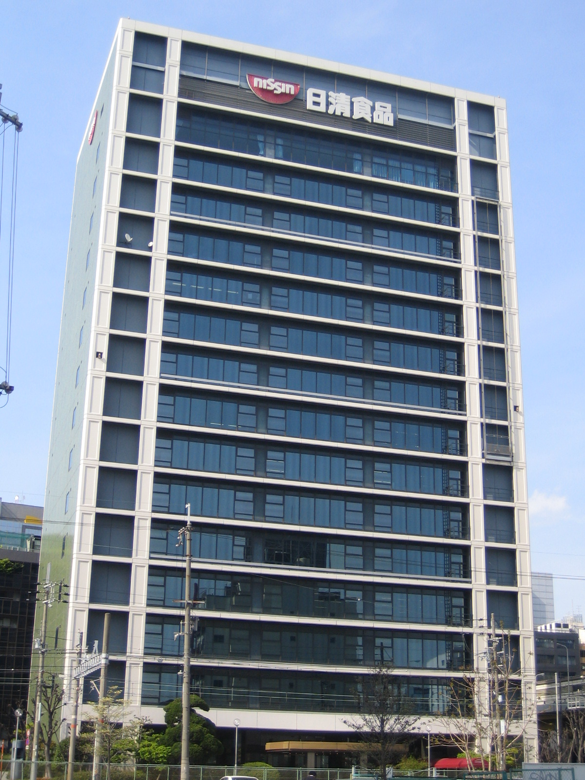 Nissin Food Products Co., Ltd. Head Office (Osaka, Japan)